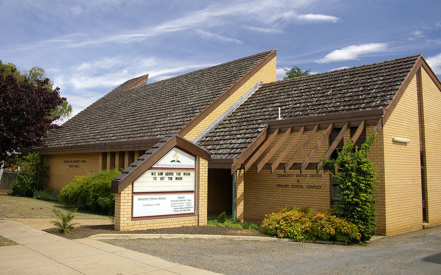 Seventh-Day Adventist Church and Adventist Primary School.